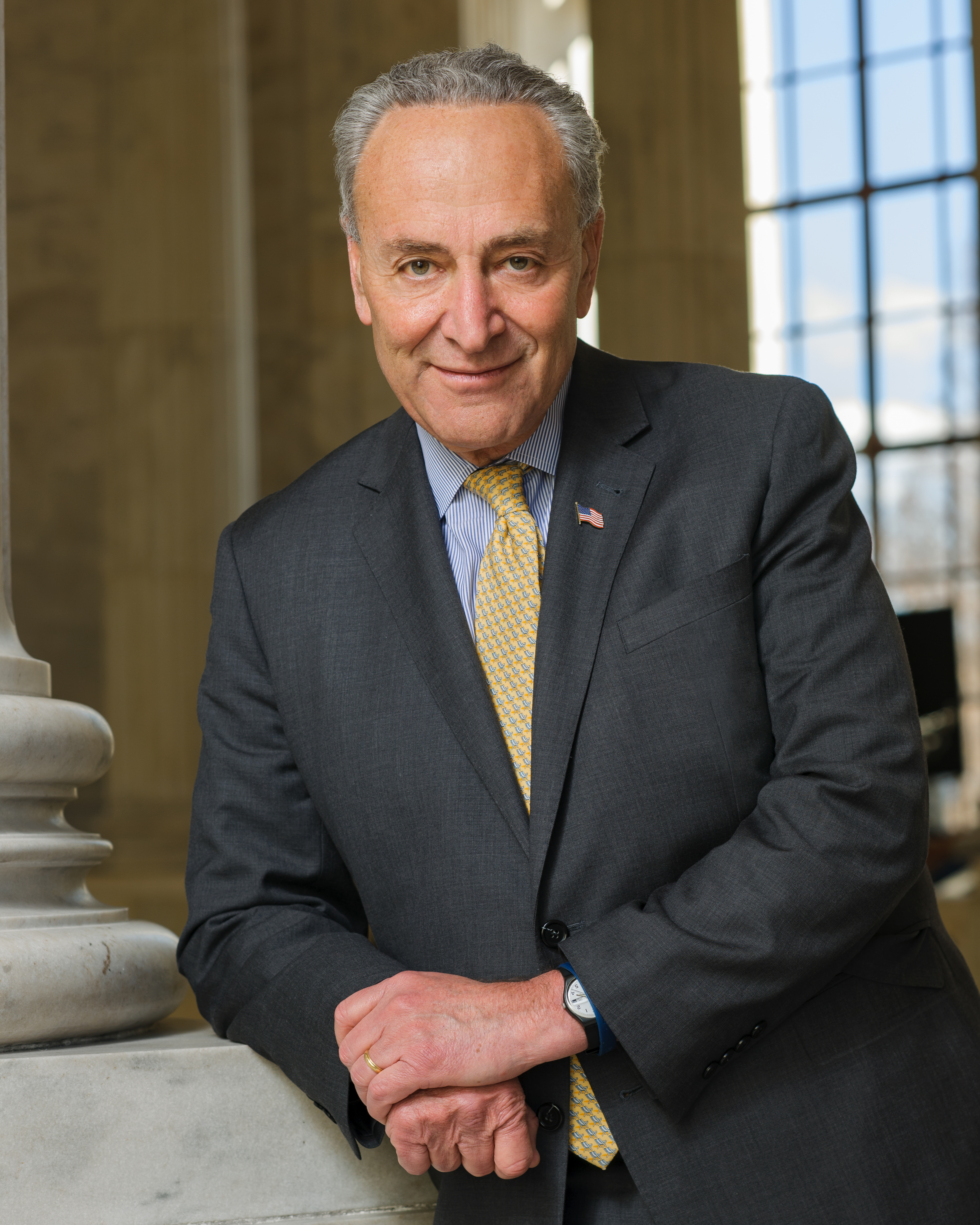 Chuck Schumer's 2nd official Congress photo